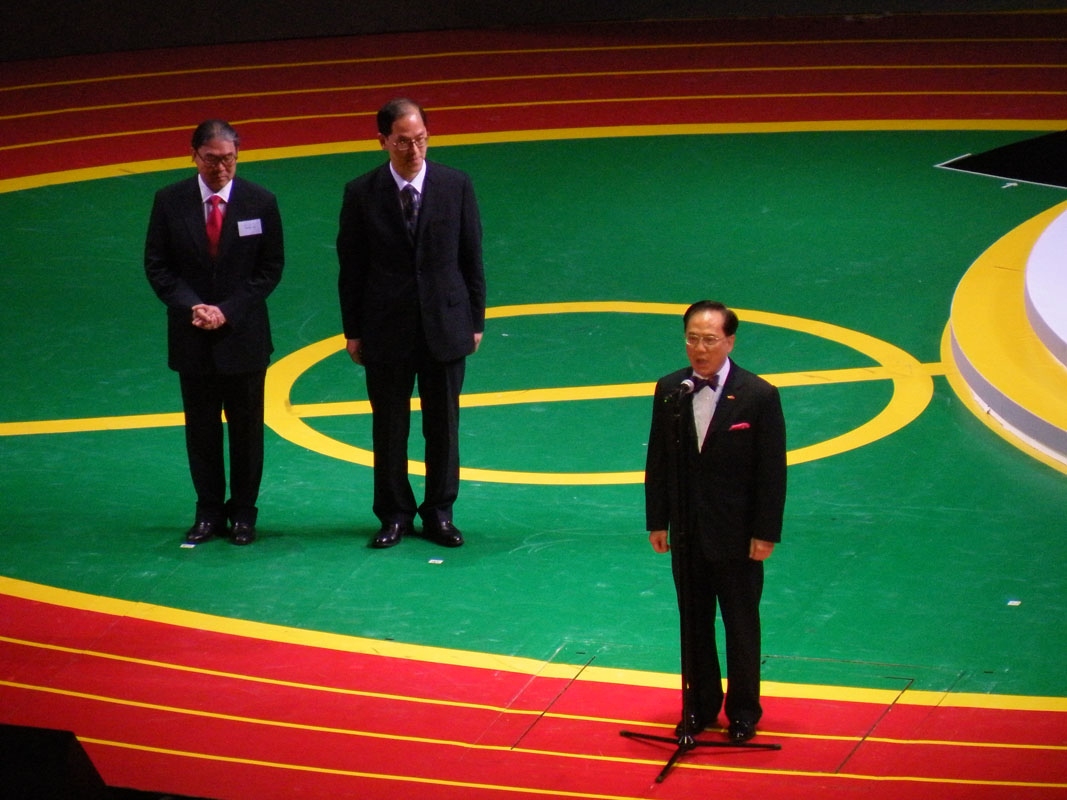 2009 East Asian Games Closing Ceremony - Donald Tsang declared the games end.